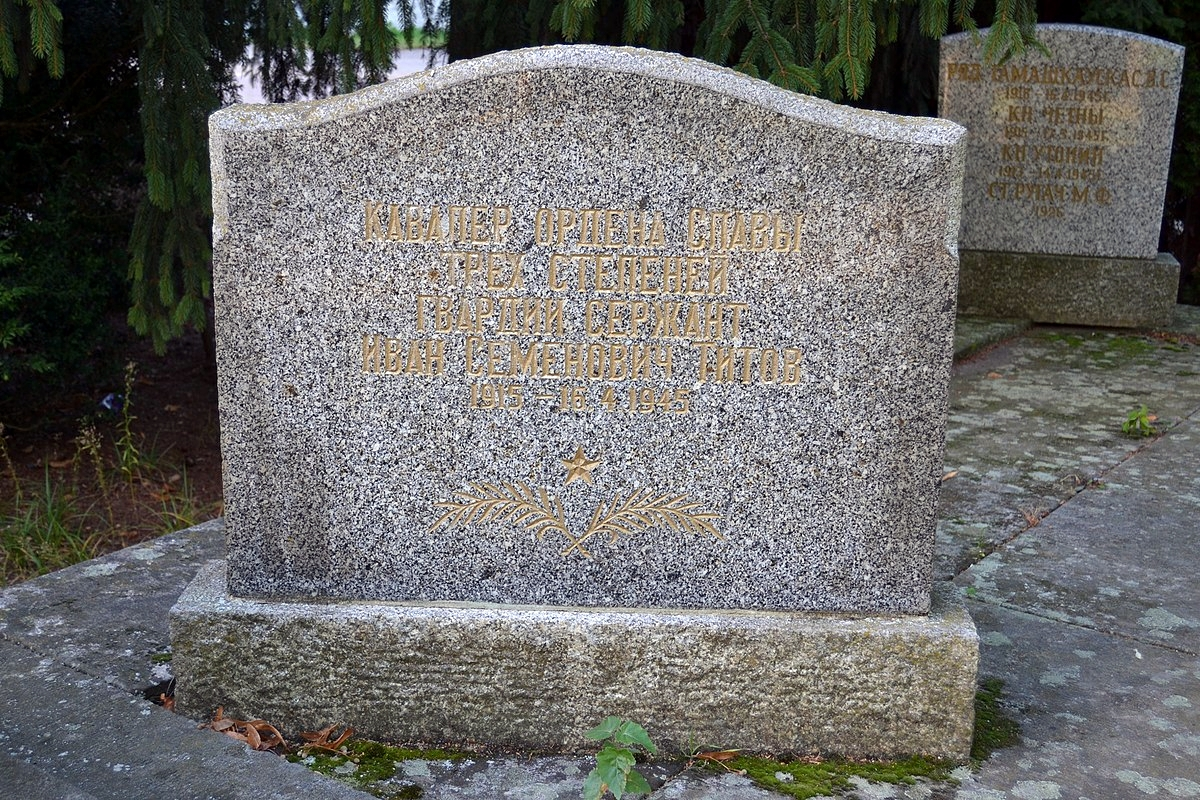 Soviet hohory cemetery in Manschnow.